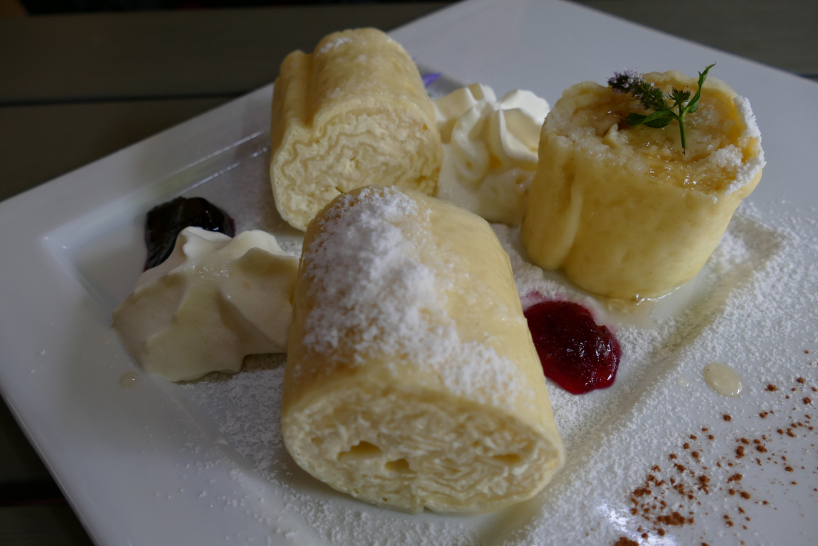 Sirovi štruklji pri Kovaču v Kropi